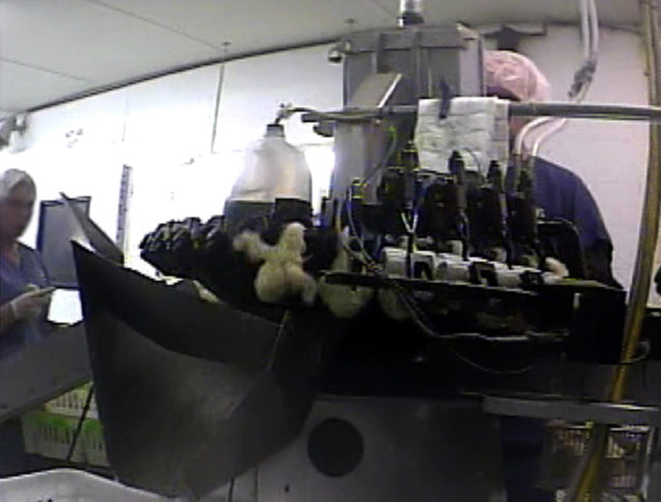 Egg Hatchery - HyLine, "a leader in the layer breeding industry by expanding the frontiers of genetics and producing excellent stock."